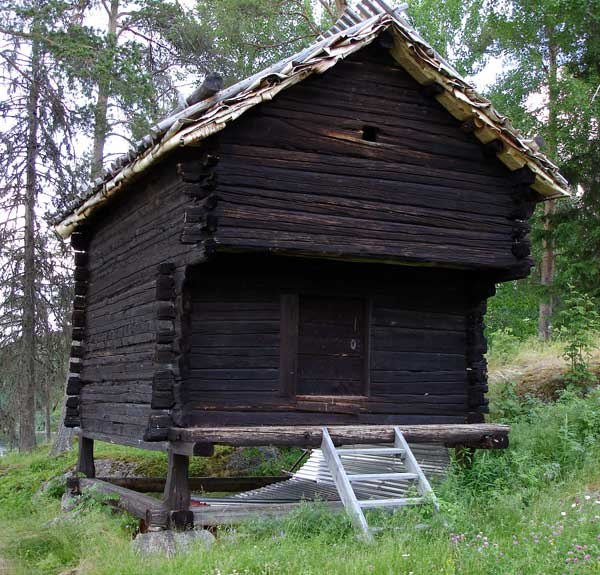 Wooden building in Örträsk, southern Lapland, built in 1684 according to dendrocronological dating.